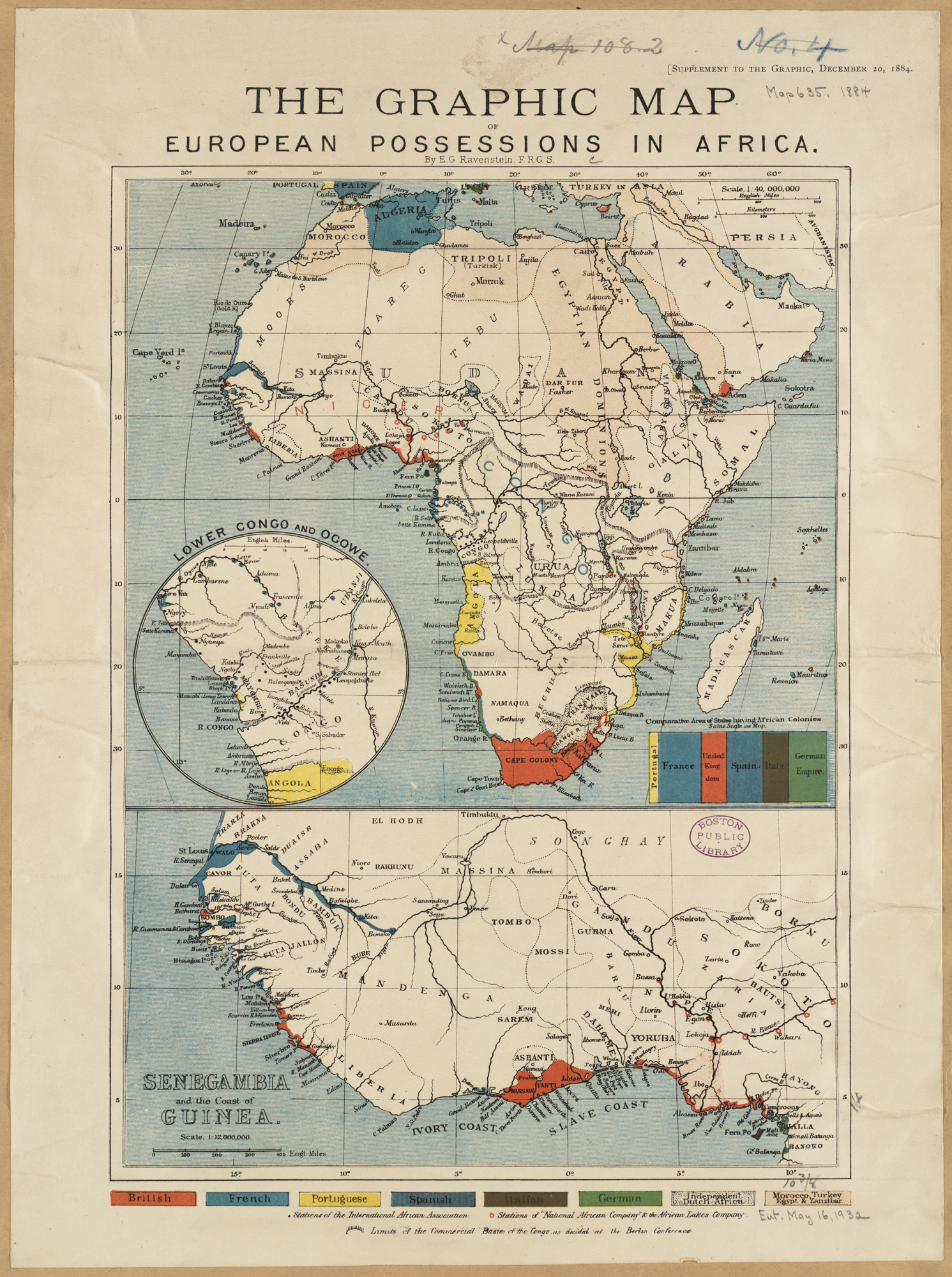 Zoom into this map at . Author: Ravenstein, Ernest George Publisher: Graphic Date: [1884] Location: Africa Scale: Scale 1:40,000,000 Call Number: G8200 1884.R39